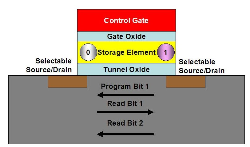 Cross section of a Spansion MirrorBit flash memory cell showing a "1" and a "0" stored in the two bit locations. Arrows indicate current flow to program either of the two bits.